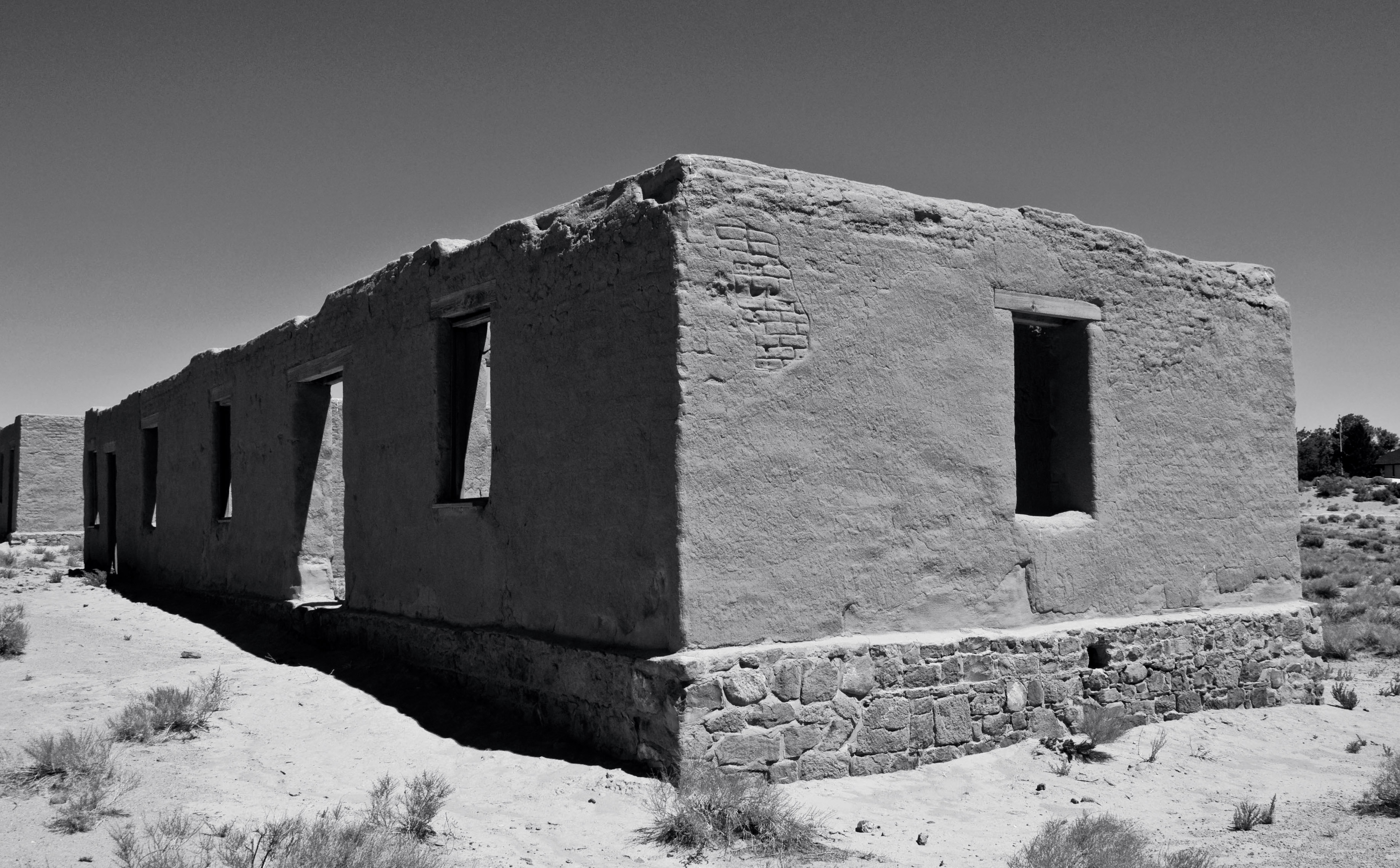 Fort Churchill Adobe Ruins — Fort Churchill State Historic Park, Nevada.